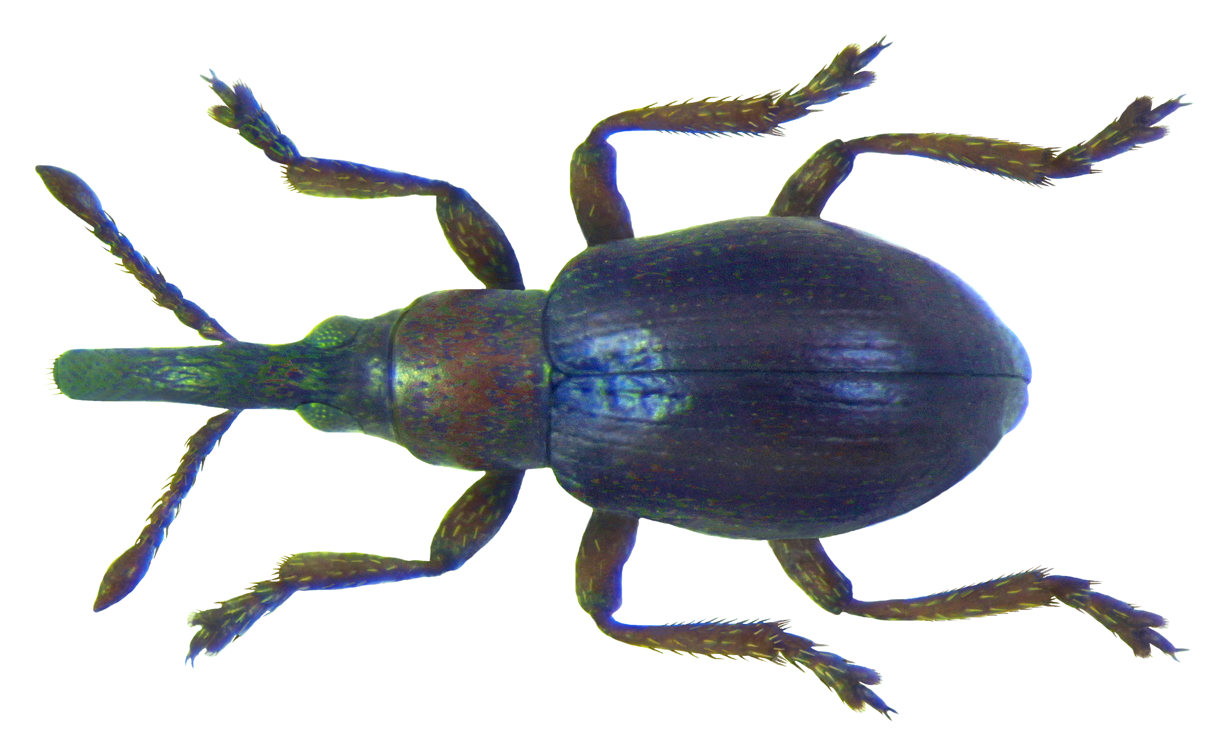 Family: Apionidae Size: 1,7-2,2 mm Origin: North Africa, Western Europe, Central Europe, Hungary, Croatia, Bulgari Ecology:Larvae develop in the gall of Filago types and Gnaphalium Location: England,Tubney, 20.VI.1908 P.Harwood coll. Pres. 1957 by Mrs. Harwood, data under mount 5-1958 Coll. Museum Oxford Photo: U.Schmidt, 2012